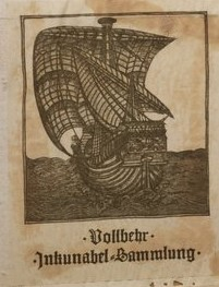 Book plate of the Vollbehr collection now in the Library of Congress